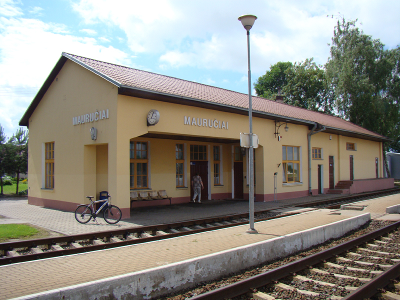 Mauručiai railway station